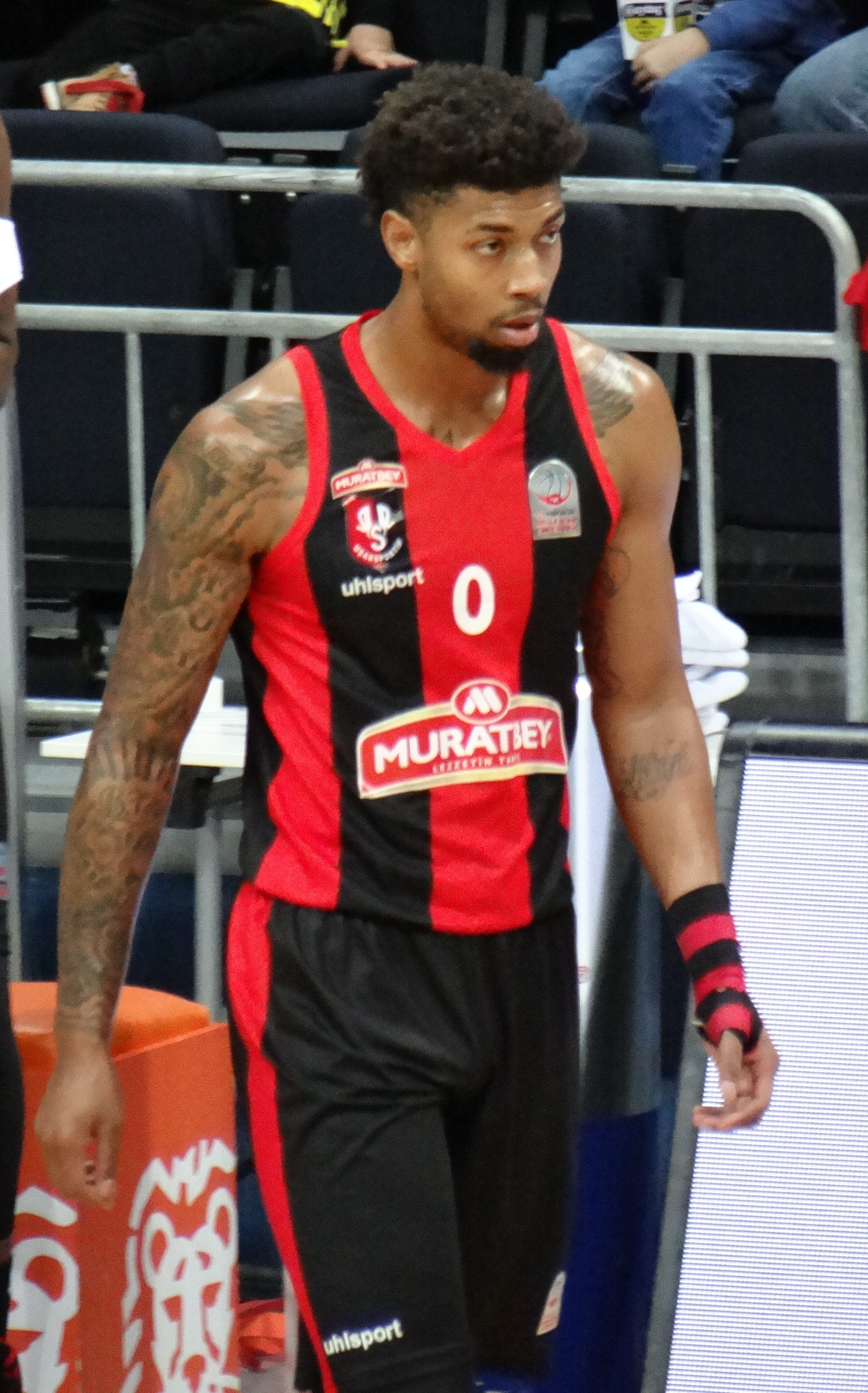 Richard Solomon (basketball) 0 Uşak Sportif 20171224